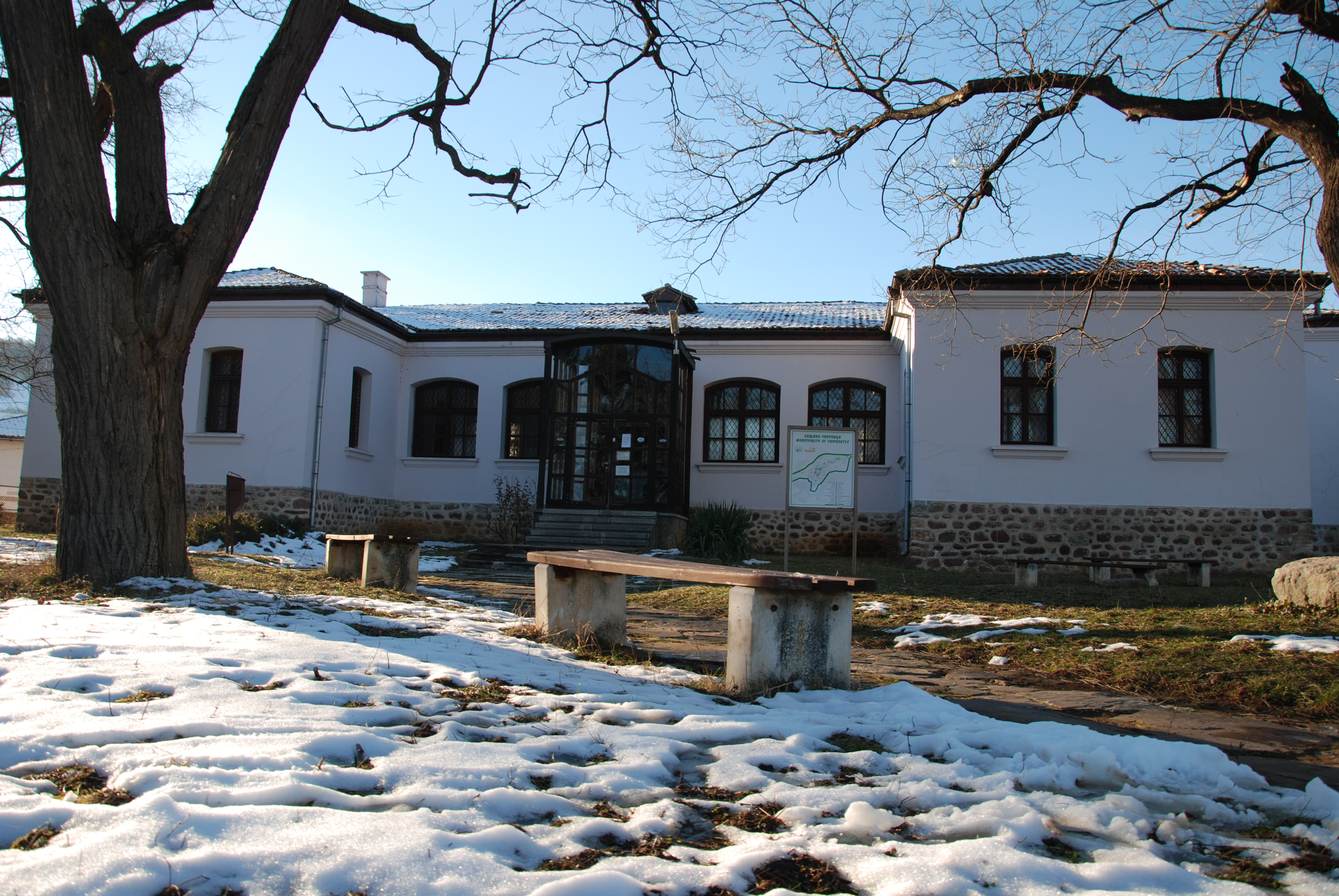 Historical Museum, Chiprovtsi, Bulgaria.